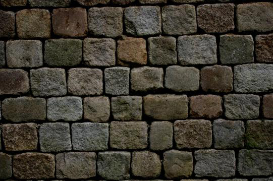 Cobblestones